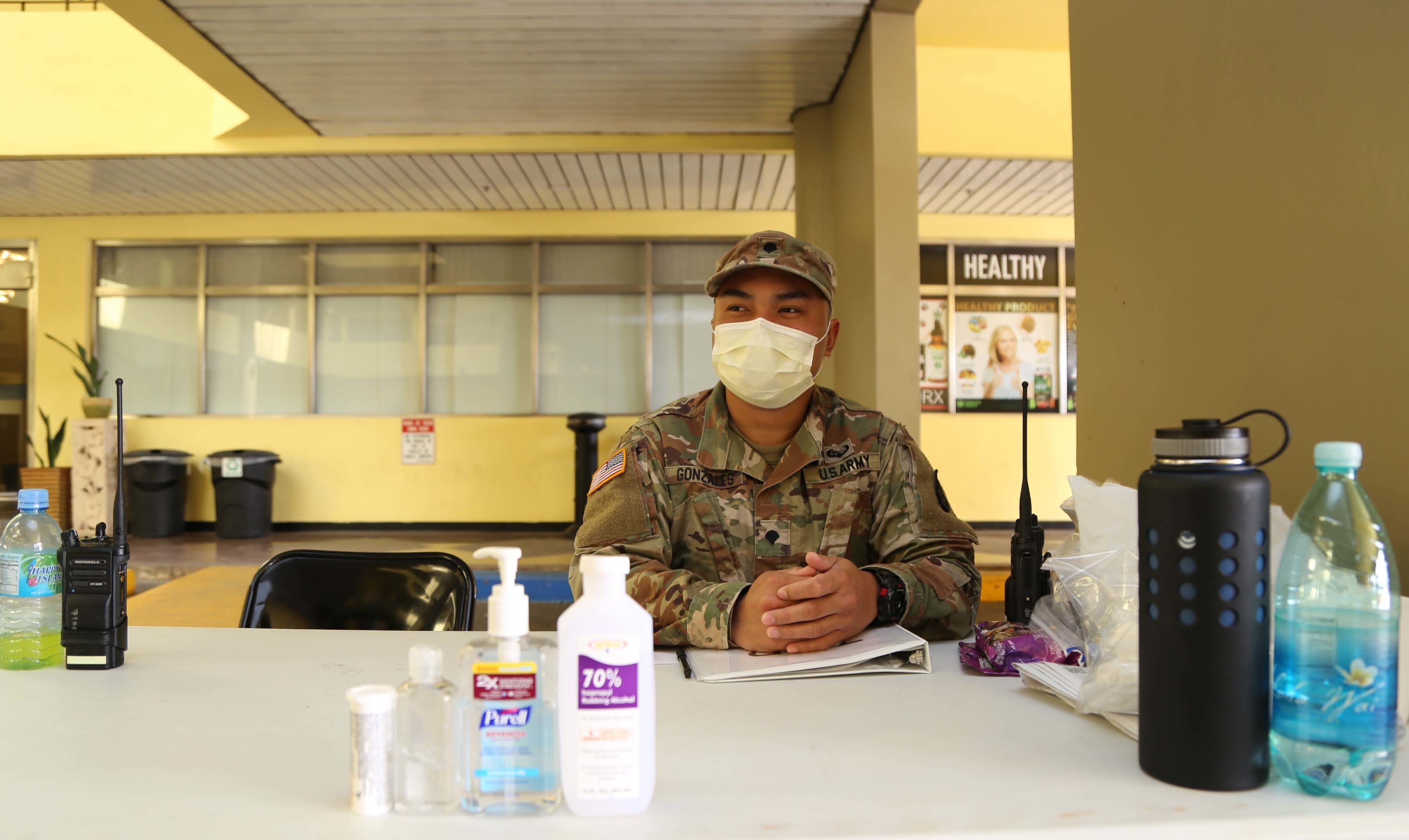 Spc. George Gonzalez, Guam Army National Guard, provides support to a COVID-19 isolation site in Tamuning, Guam, March 23, 2020. By the direction of Guam Gov. Lou Leon Guerrero, the GUNG was activated March 21 to assist the local government’s COVID-19 response efforts. (U.S. Army National Guard photo by JoAnna Delfin)